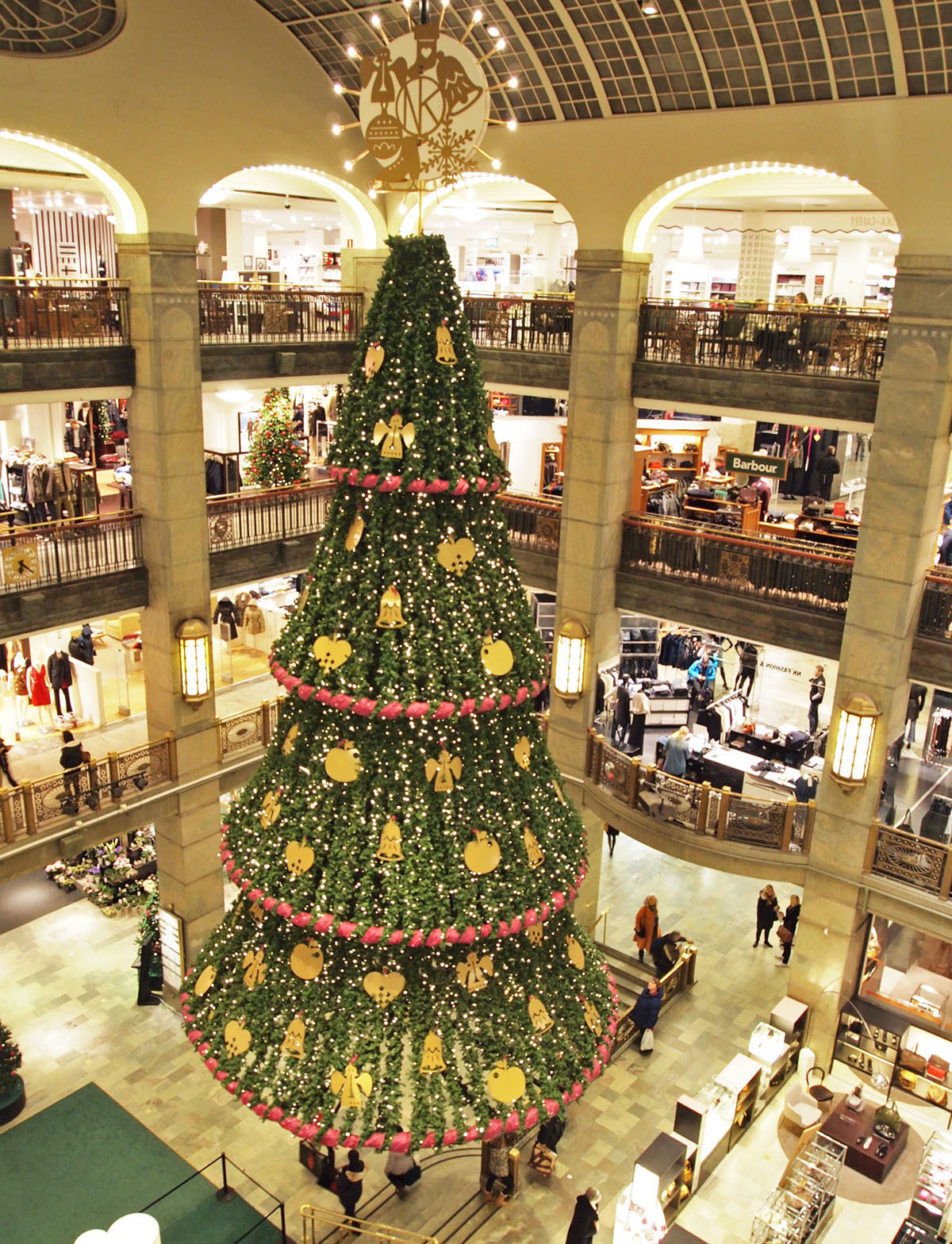 NK shopping centre in Stockholm, Sweden.